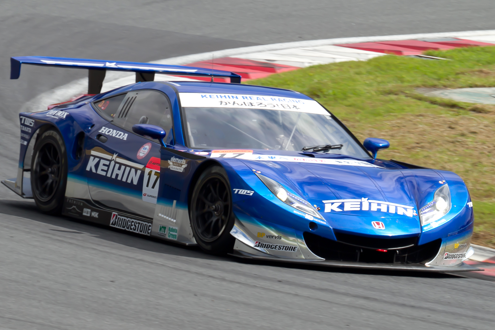 Super GT 2011 Rd.6 Fuji GT 250km: Ryo Michigami (Keihin Real Racing) driving the Honda HSV-010 GT.